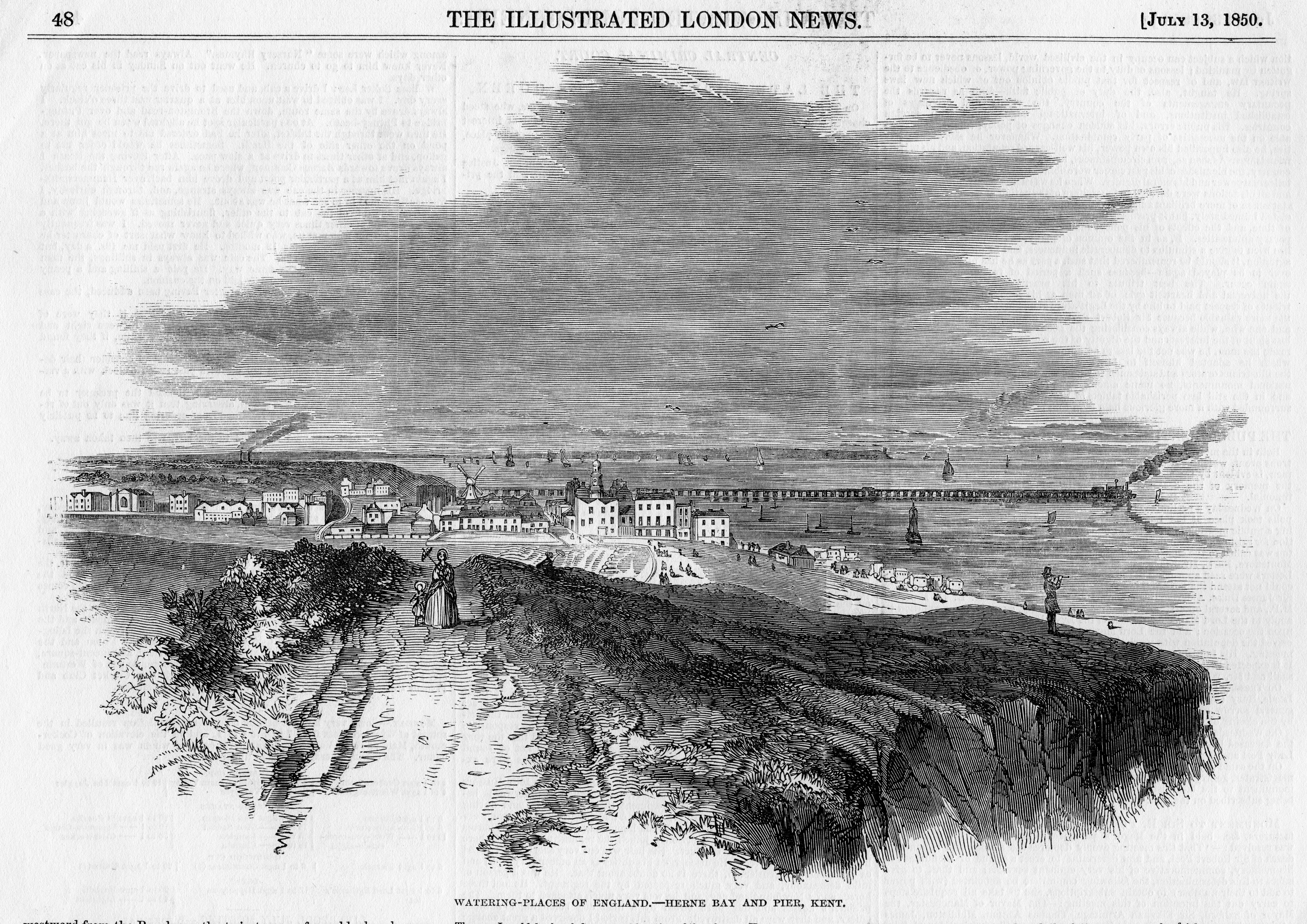 1850 lithograph of Herne Bay, showing in the background the first wooden Herne Bay pier, built 1832 by Thomas Rhodes, assistant to Thomas Telford.